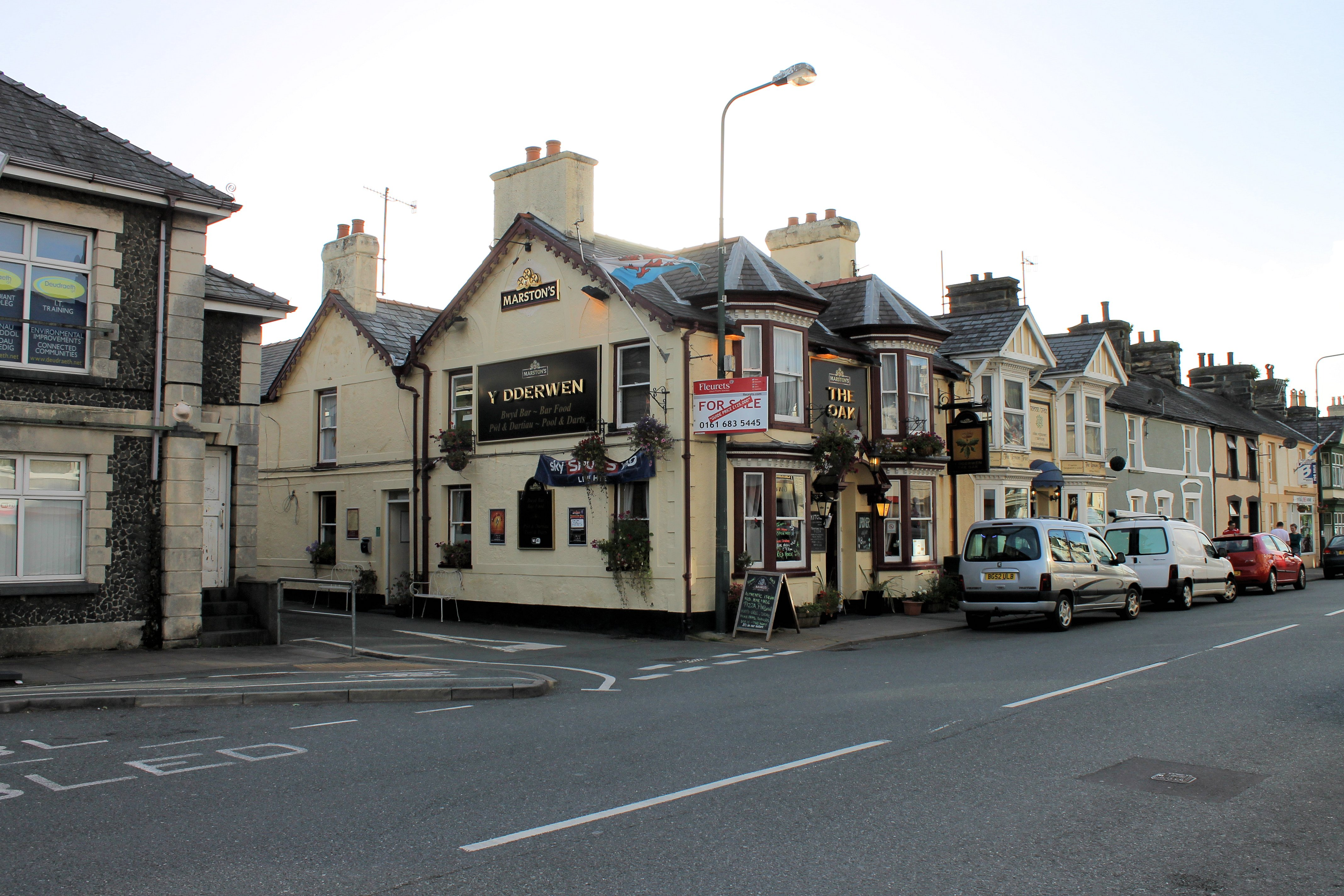 Tafarn y Dderwen (Oak pub), Penrhyndeudraeth, Gwynedd.